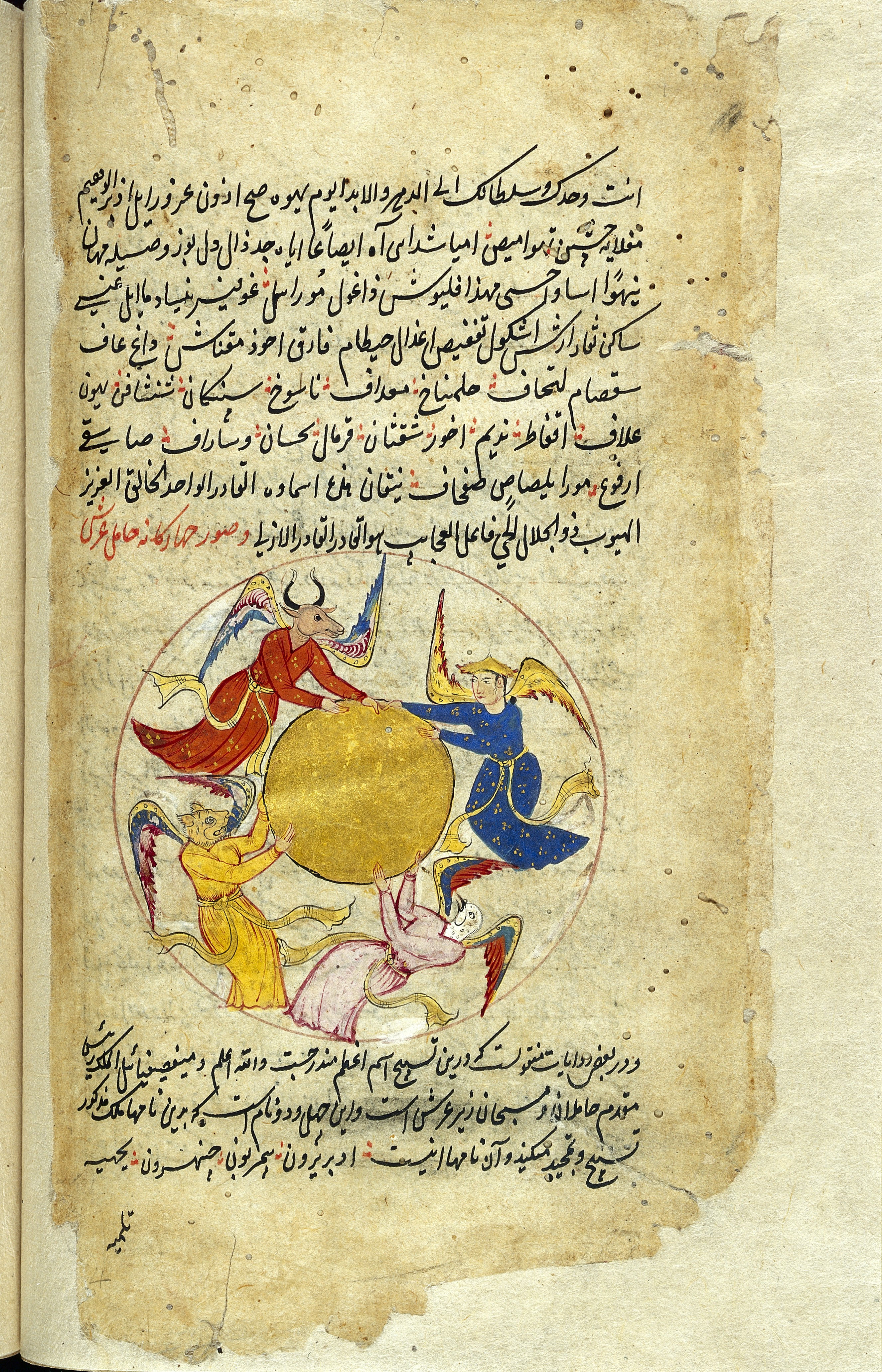 The four supporters (angels) of the celestial throne, detail, from Persian Manuscript 373. One has the head of a human while the other three have heads of an eagle, a lion and an ox. Wellcome Images Keywords: ms persian 373; Zodiac; Astrology; Astronomy